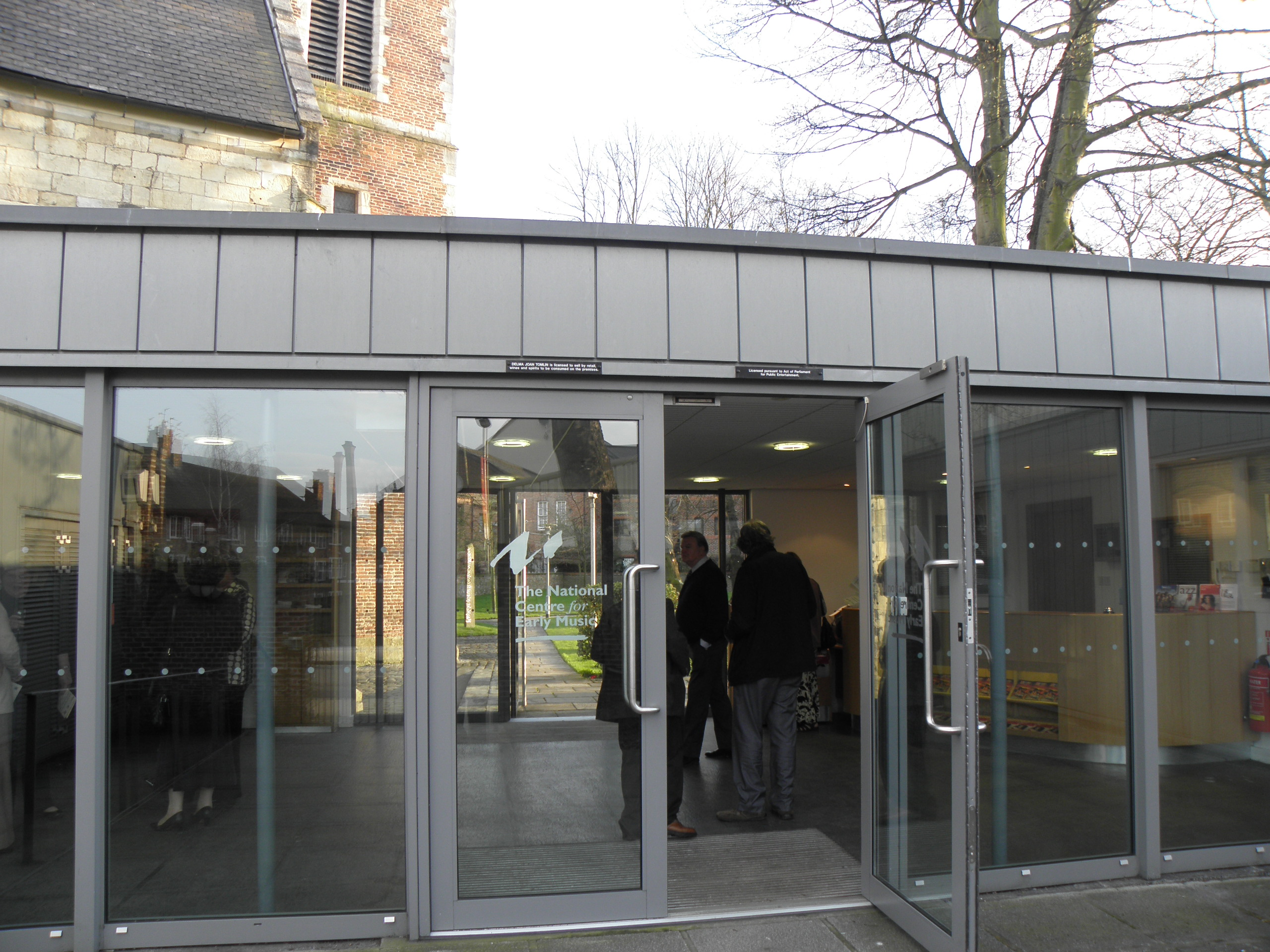 National Centre for Early Music The modern entrance to the restored church used as a musical practice and performance centre.